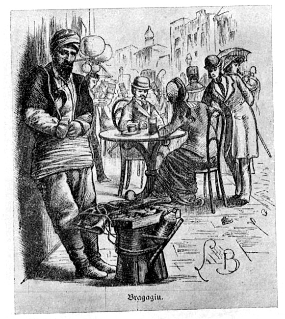 Turkish bragagiu (seller of millet beer), Bucharest, 1880